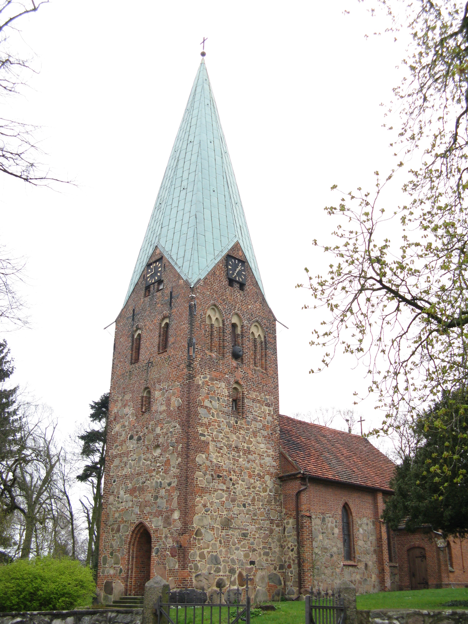 Church in Spornitz, Germany